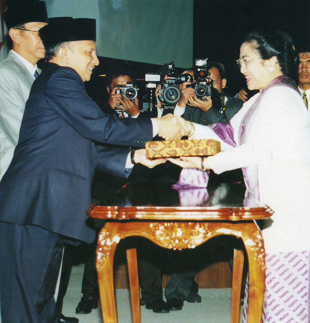 Chairman of the People's Consultative Assembly handed over the outcome of the Assembly's Special Session to the newly-appointed President Megawati at the Assembly on July 23, 2001.